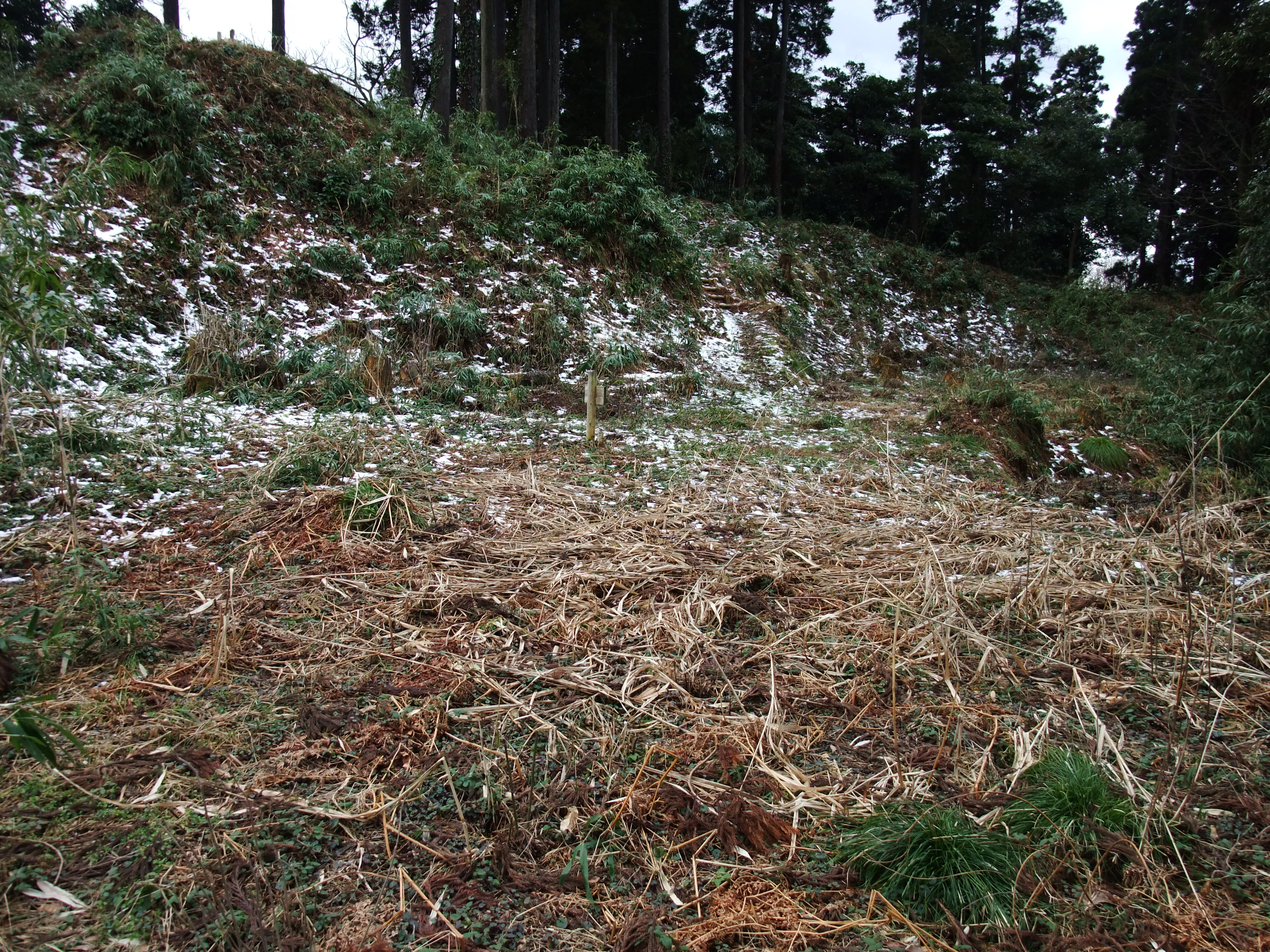 photo of Iikubo castle (Toyama Japan)